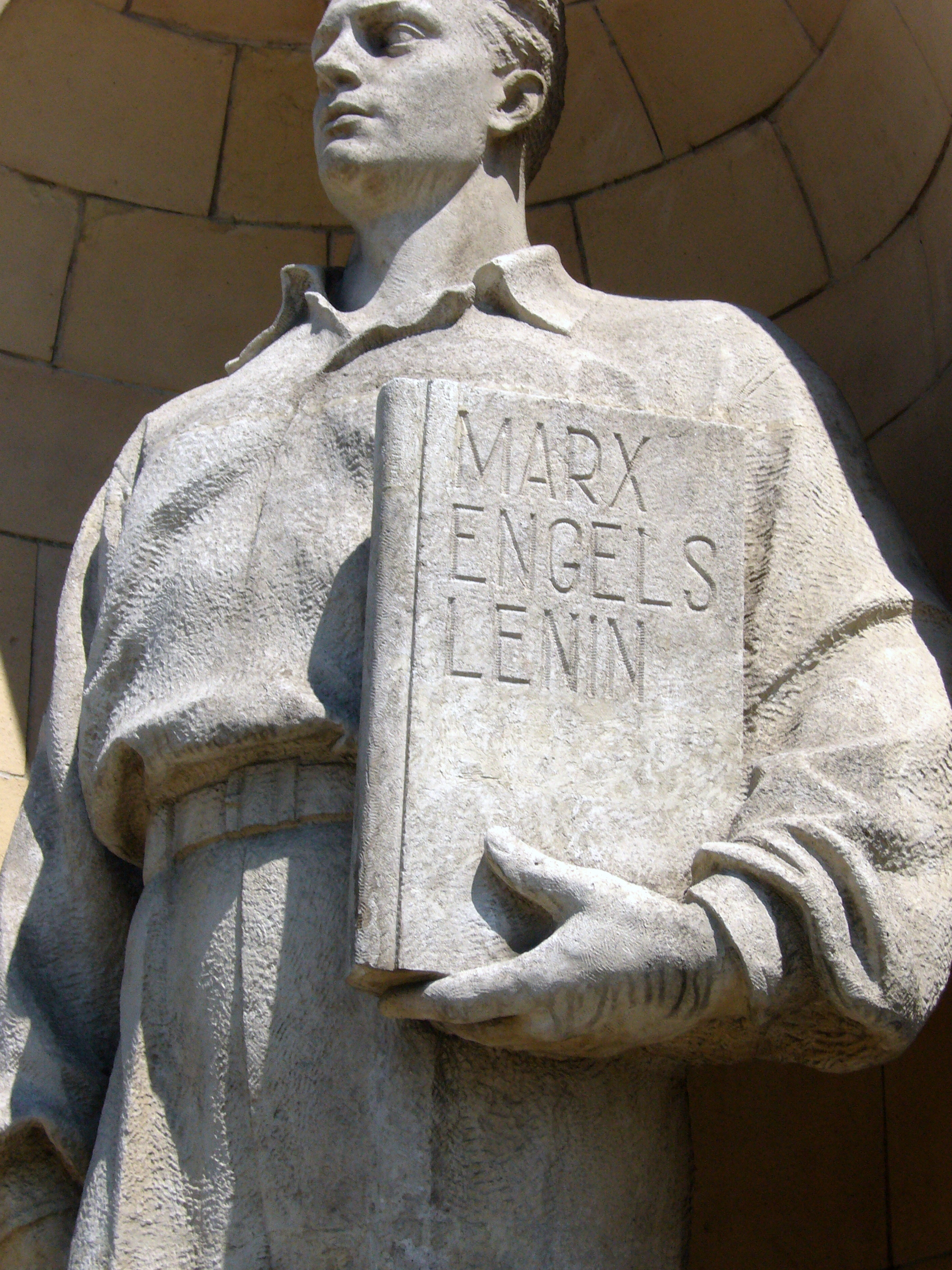 Sculpture in the back of the Palace of Culture and Science, Warsaw with removed inscription "STALIN"